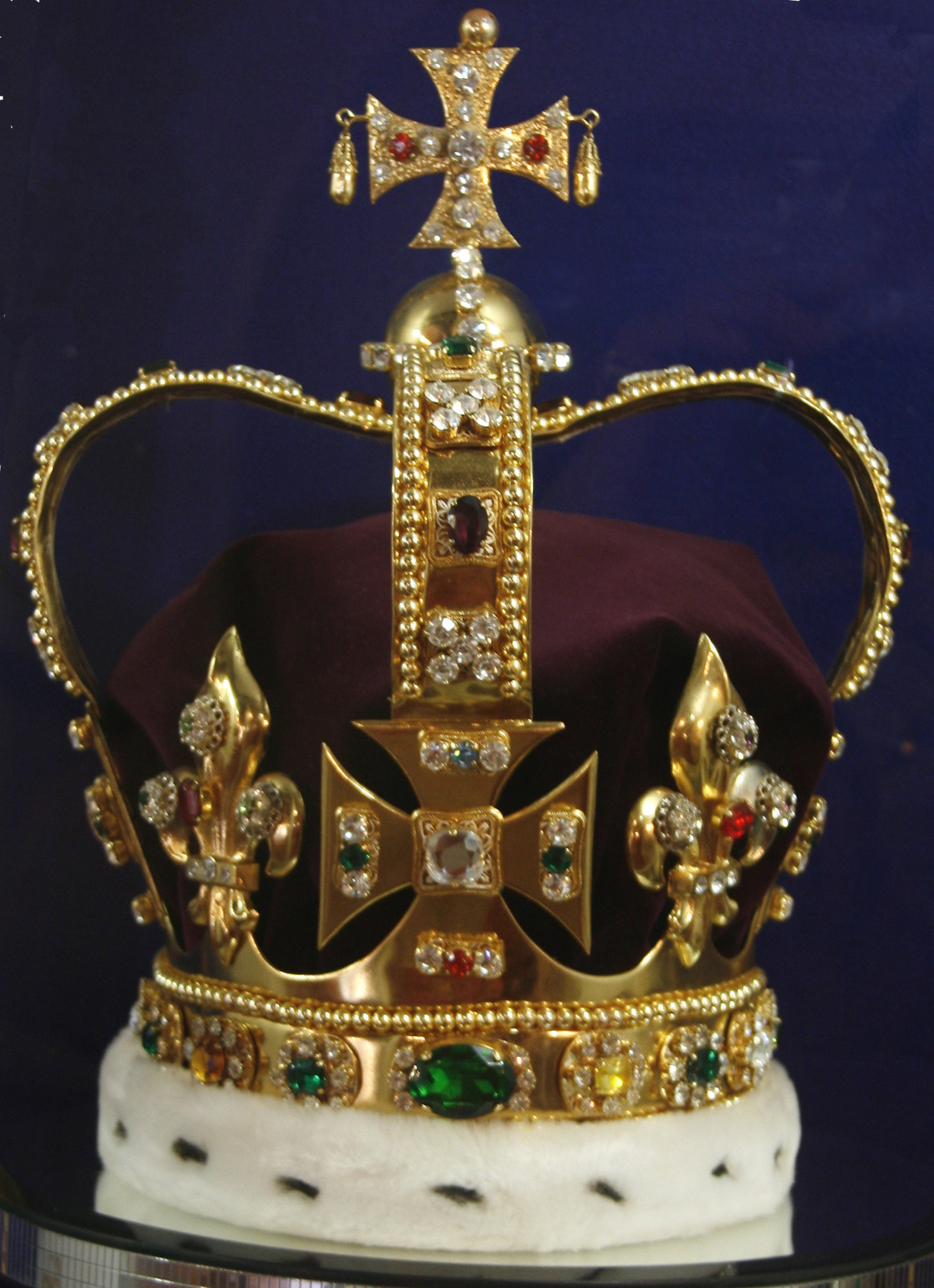 A Copy of the St. Edwards Crown